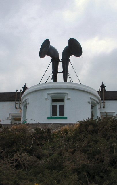 Lizard lighthouse foghorn The foghorn gives one blast every 30 seconds during adverse weather.